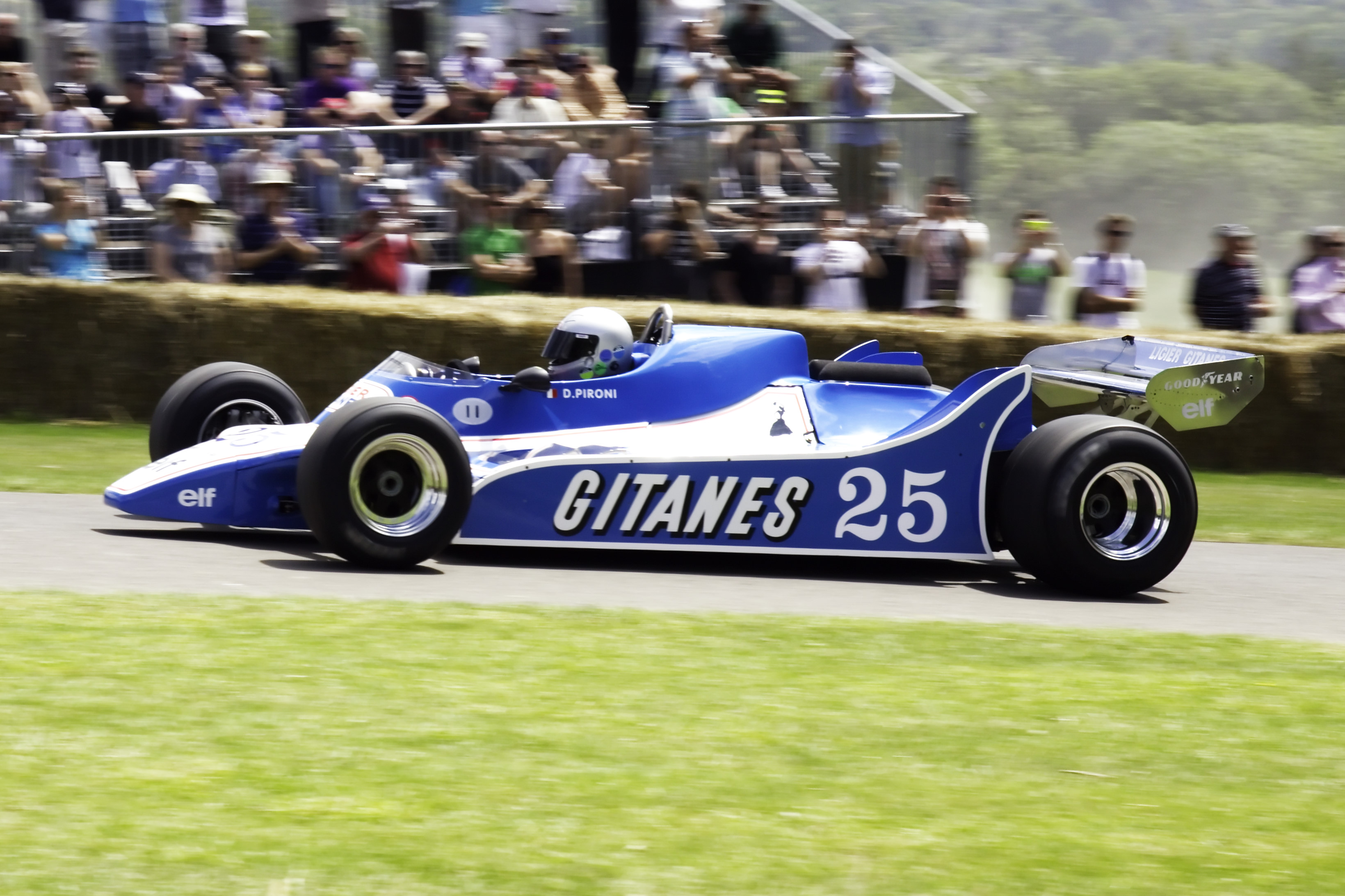 Ligier-Cosworth JS11/15